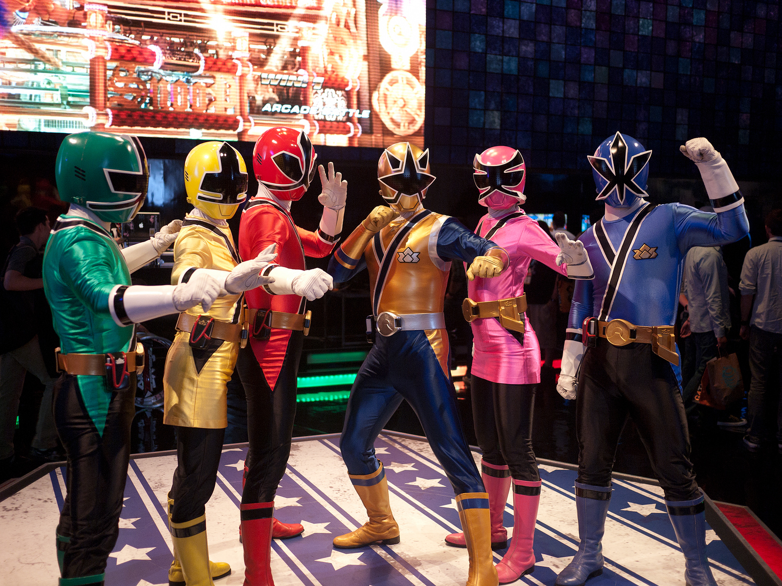 Power Rangers, from: Samurai season